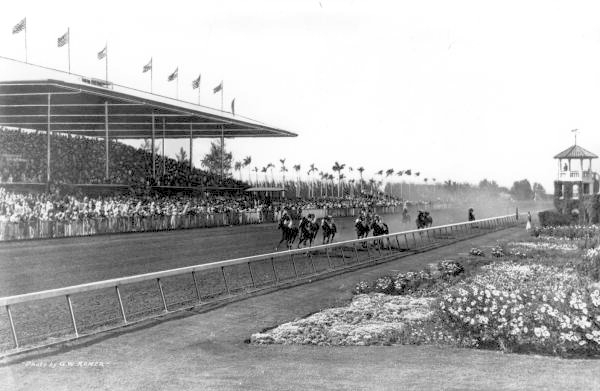 Local call number: RC13454 Title: Horse Racing at Hialeah Park Date: ca. 1930 General Note: Hialeah Park, located at 2200 East 4th Avenue in Hialeah, Florida, opened in January 1925. The racing track was added to the National Register of Historic Places in 1979. Photographer: G.W. Romer Physical descrip: 1 photoprint - b&w - 8 x 10 in. Series Title: Reference Collection Repository: State Library and Archives of Florida, 500 S. Bronough St., Tallahassee, FL 32399-0250 USA. Contact: 850.245.6700. Persistent URL